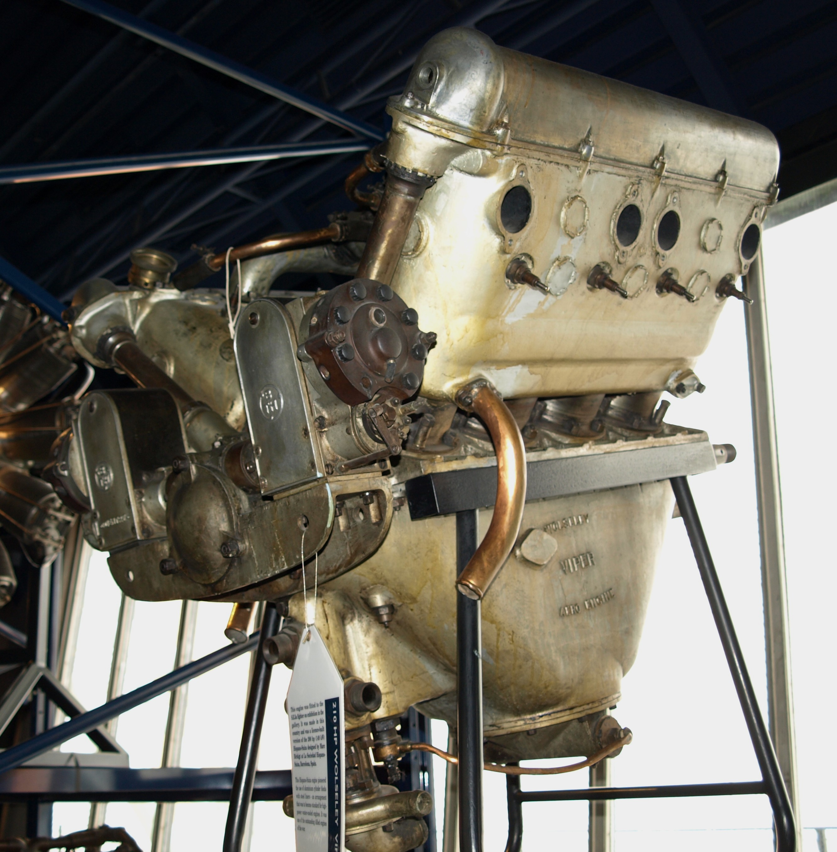 Wolseley Viper aircraft engine at the Science Museum, London.